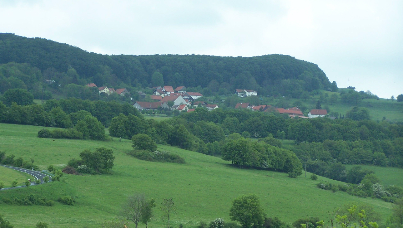 A view to Föhlritz village.